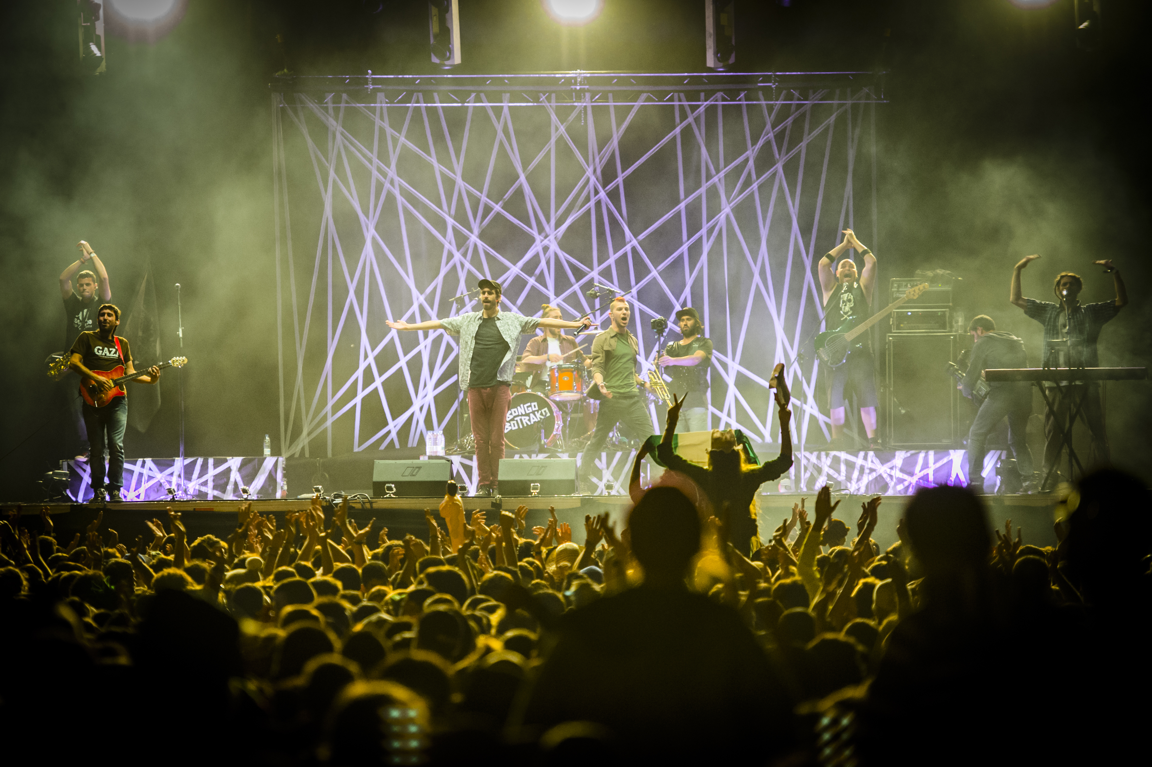 Bongo Botrako performing at Viña Rock Festival in Villarrobledo, Spain on May 2, 2014.